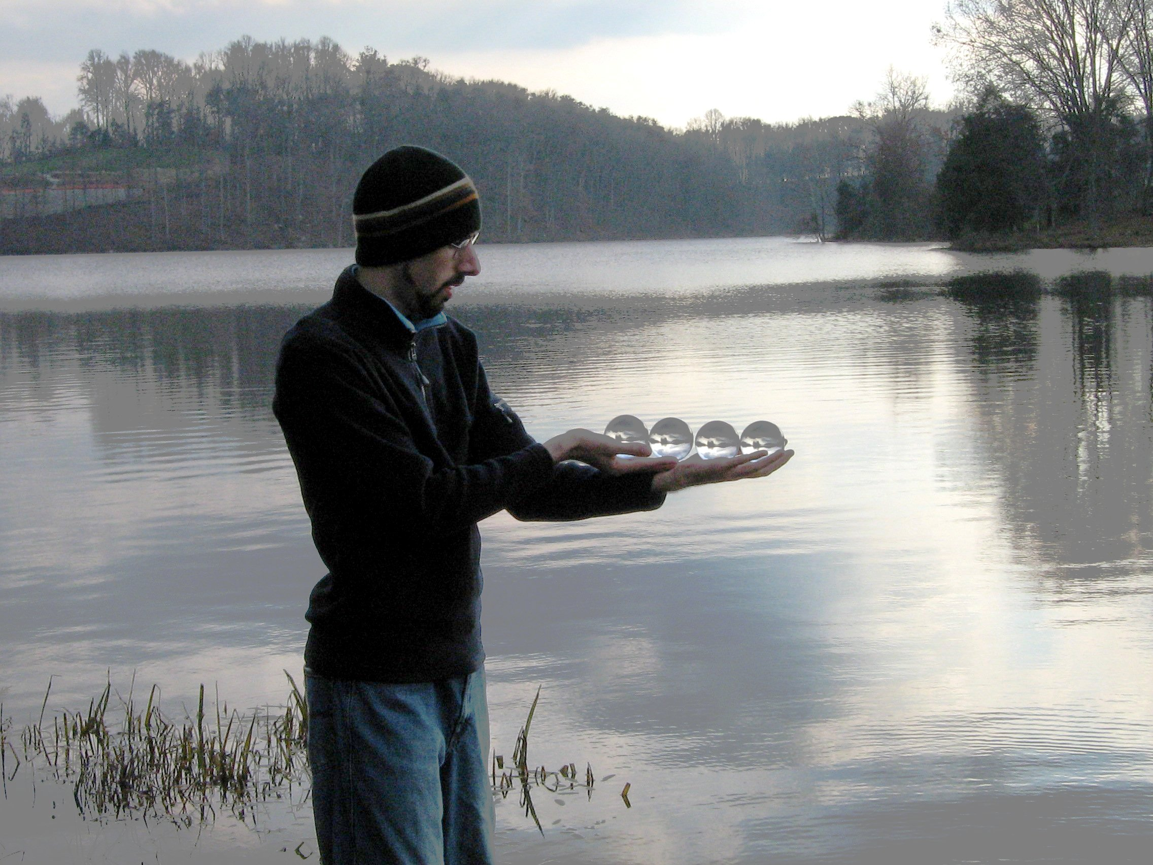 This is a digital photograph of someone contact juggling four 3" acrylics with Lake Pelham in the background. It is intended to be used as the main image of the contact juggling page on Wikipedia until a more suitable image is found.